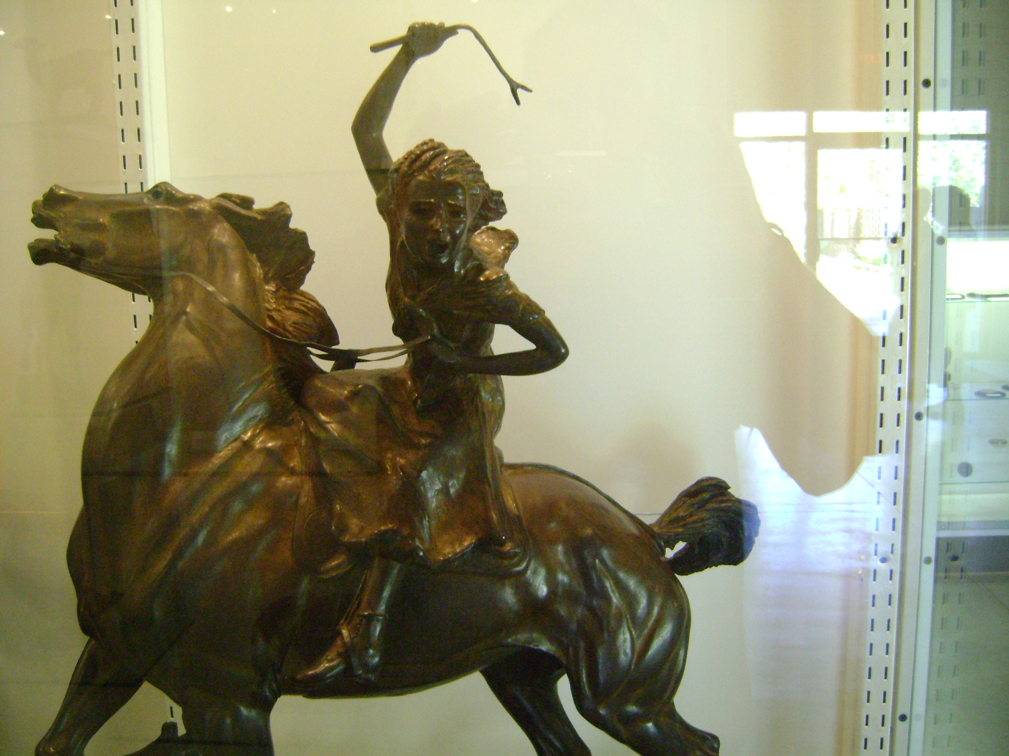 Another Sybil Ludington statue at the Offner museum at Brookgreen Gardens; Myrtle Beach, SC.